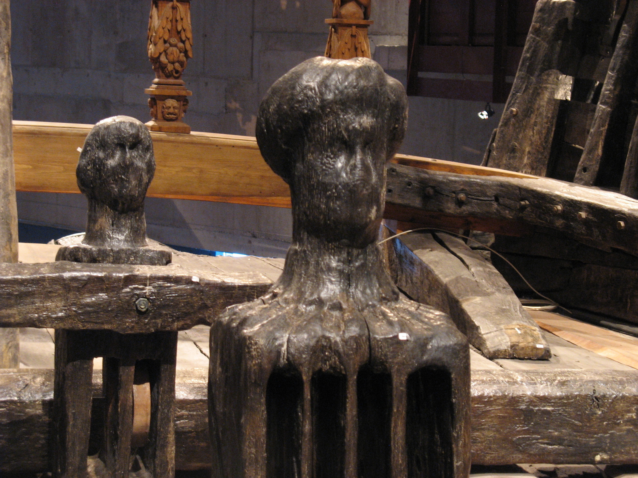 Two knightheads with clear signs of erosion. Picture taken from the weather deck of the warship Vasa looking forward.